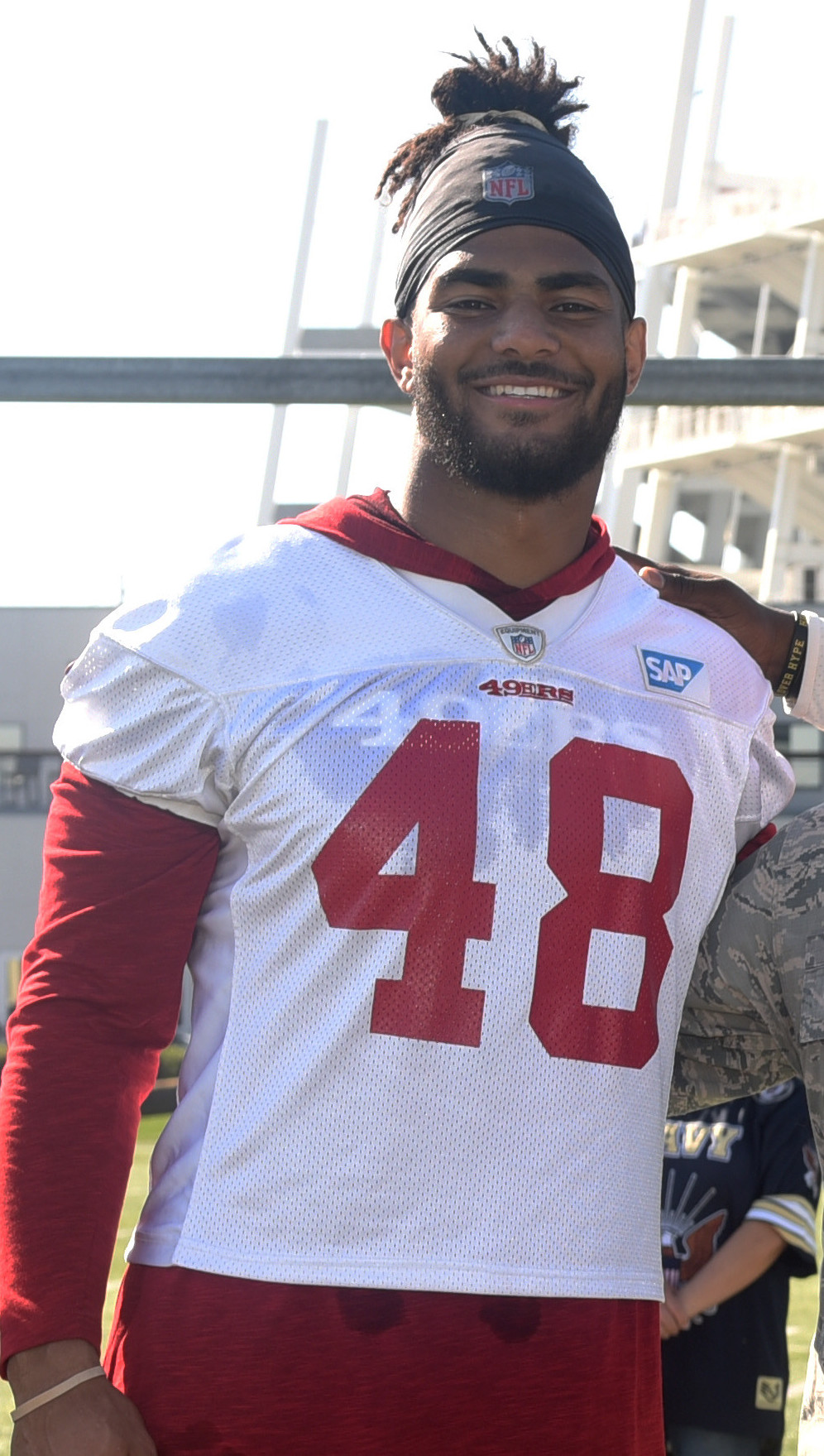 U.S. Air Force Senior Master Sgt. Scott Piper, 60th Air Mobility Wing career assistance advisor, his wife, Master Sgt. Luciana Piper, 60th Medical Support Squadron information systems flight chief, and their family pose for a photo with San Francisco 49ers November 11, 2018, at Levi’s Stadium, Santa Clara, California. Ten Airmen and their families had the opportunity to attend a 49ers practice, talk about experiences and get in-depth about what it means to be an Airman and what it means to be a 49er.